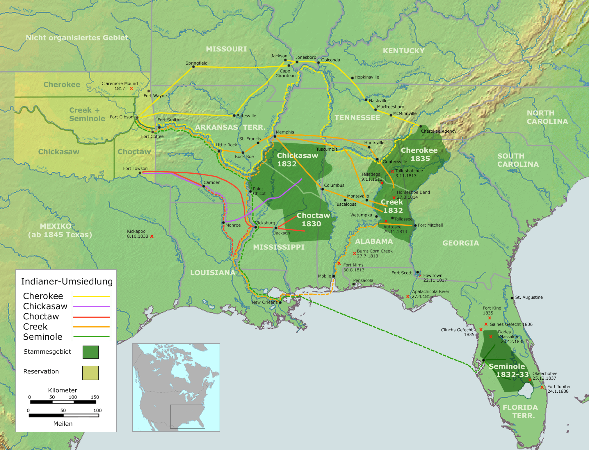 Trails of Tears (German version)